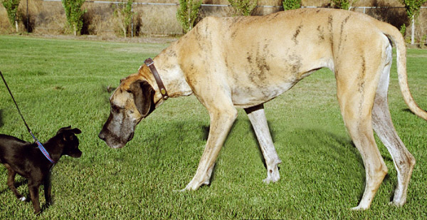 Chihuahua mix and Great Dane. Brindle Great Dane: Daynakin Danelind Fairhaired Bonnie Blu ("Bonnie"), AX, MXJ, SS, SJ, SR, SSA, EJC, NGC, NAC; owned by Jean Liebmann Chihuahua mixed-breed (full-grown): Diamond in the RRRuff ("Sparkle"), agility dog in training; owned by Arlene Watson